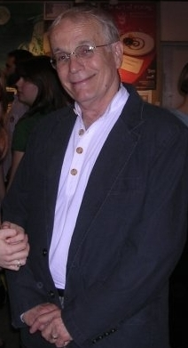 A recent photo of Justin Leiber.